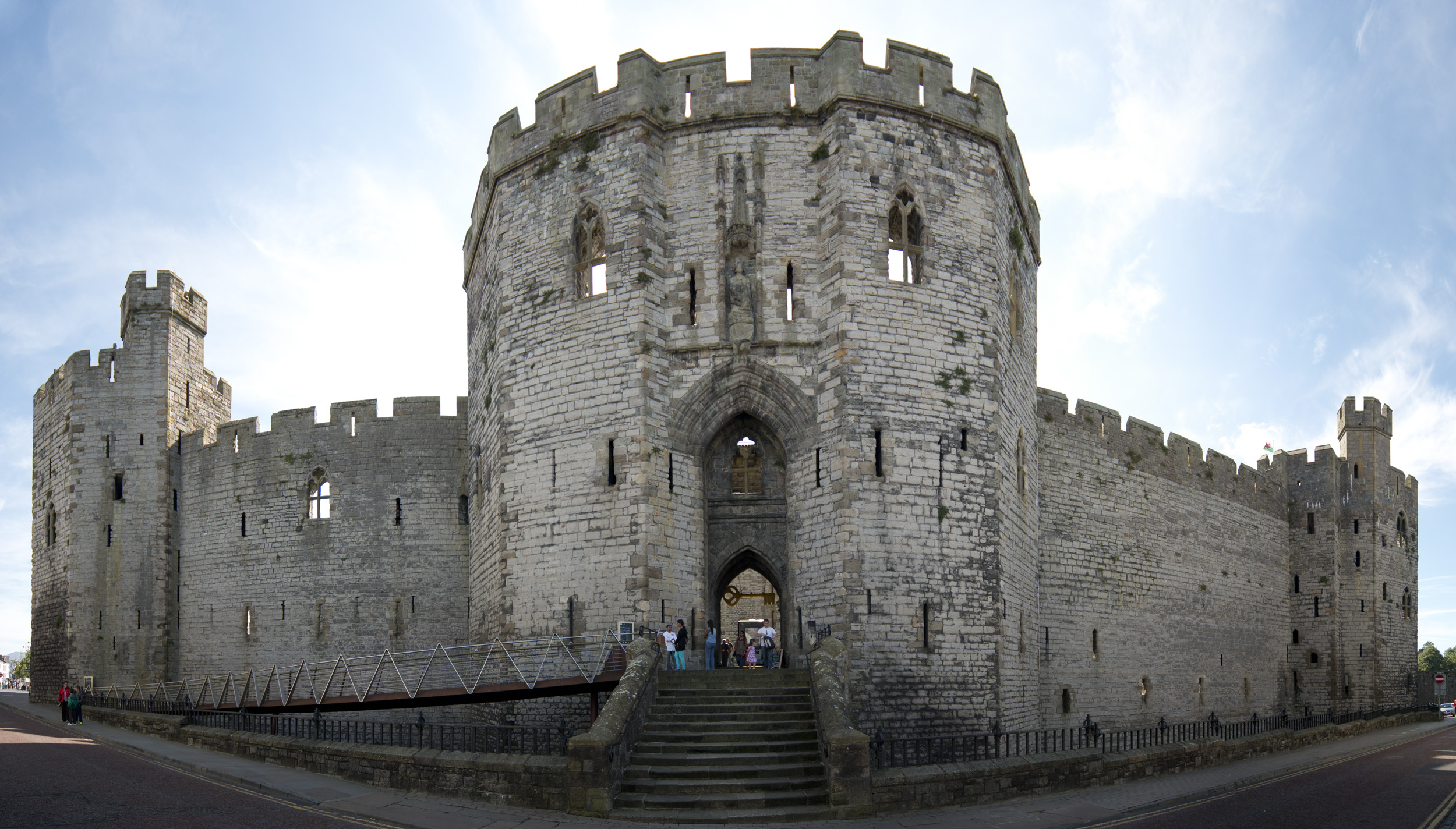 Caernafon Castle Panorama